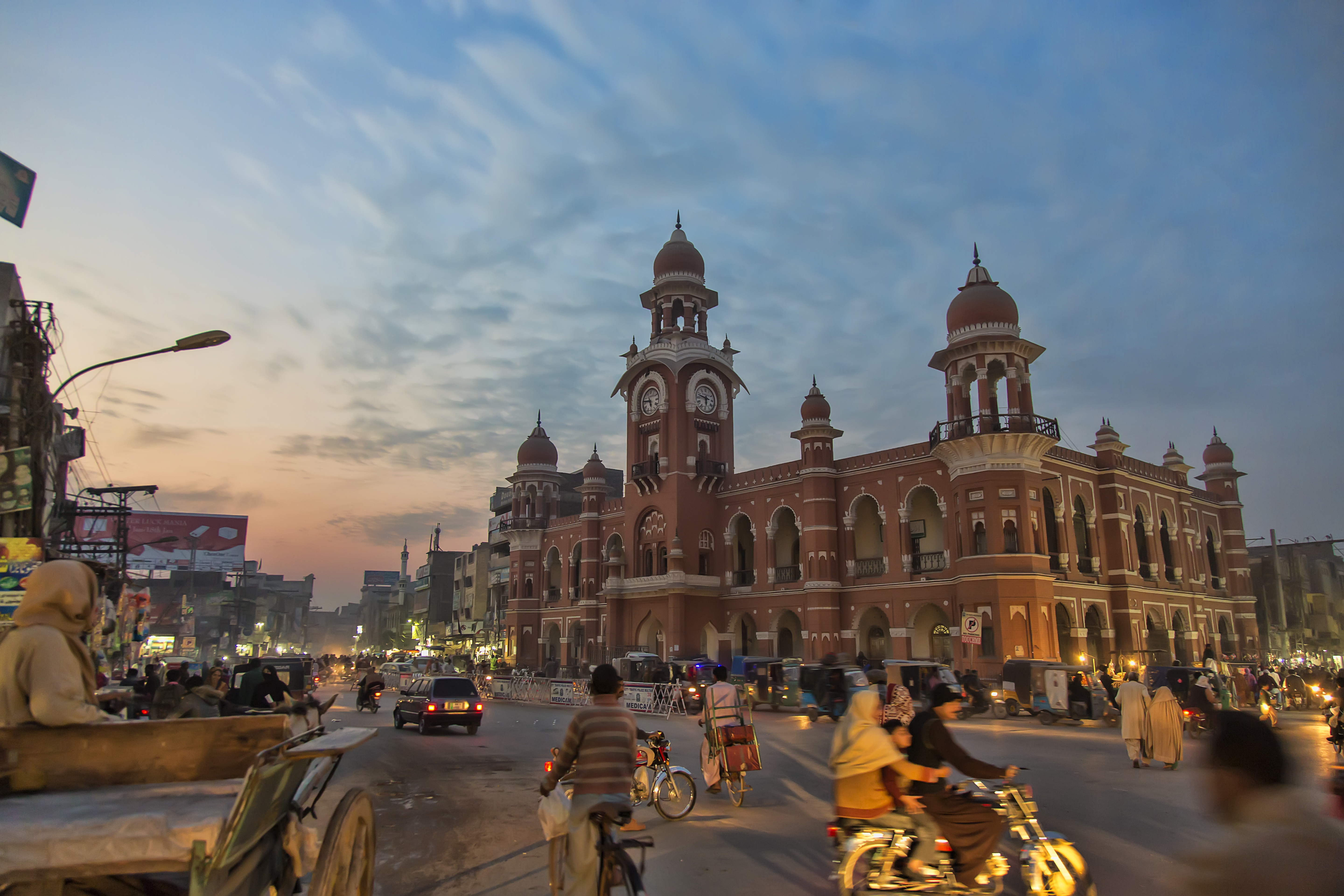 Ghanta Ghar Chowk is a place in Multan, the fifth-largest city in Pakistan, which literally means "Clock Tower Town Square" in Urdu. It is the largest intersection in Multan, near the clock tower of the city called Ghanta Ghar. Wikipedia This is a photo of a monument in Pakistan identified as the PB-105